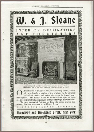 Advertisement for W. & J. Sloane Furniture from Sept. 1902 editions of Scribner's Magazine. Public Domain -- published in 1902 -- more than 100 years old.